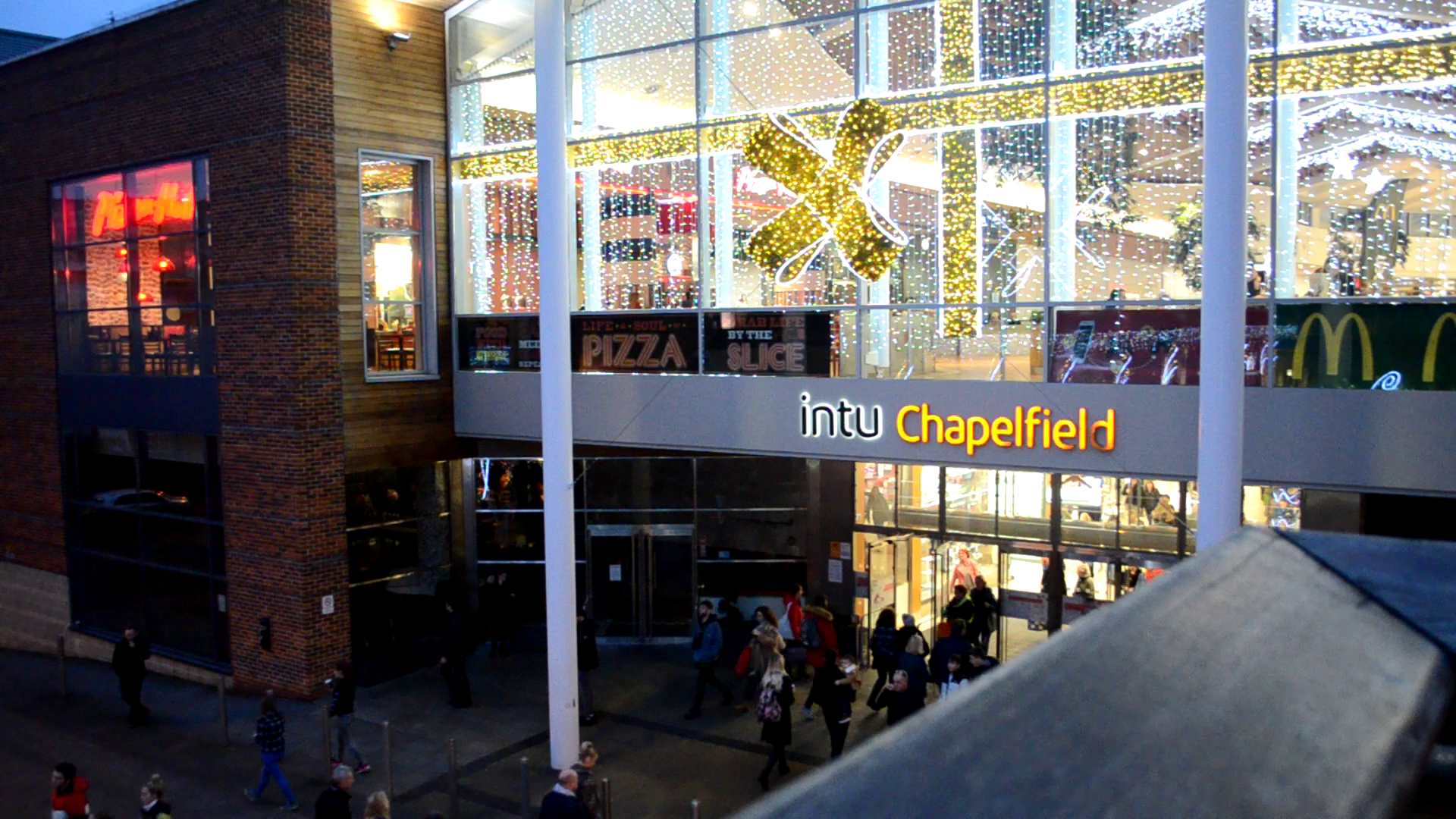 A christmas-themed entrance to Intu Chapelfield on Chantry Road in late November 2019.